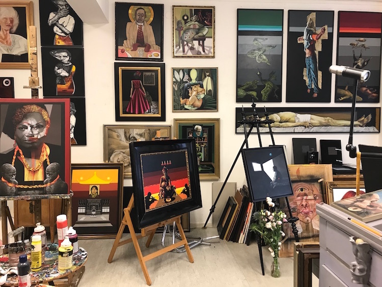 Studio of the German painter Yolanda Feindura, Bremen (2019), paintings